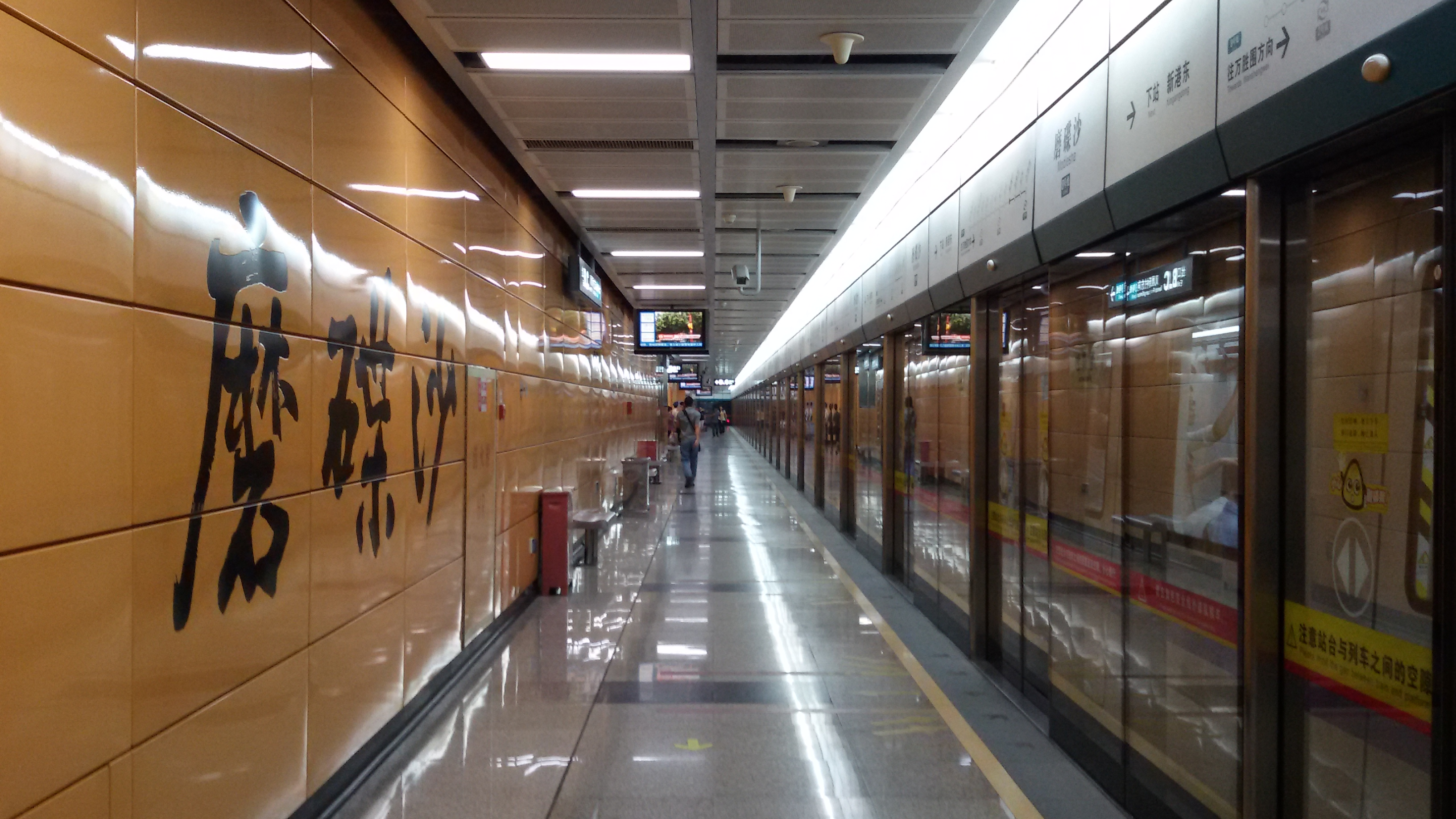 Station Platform for Modiesha Station in Guangzhou Metro.